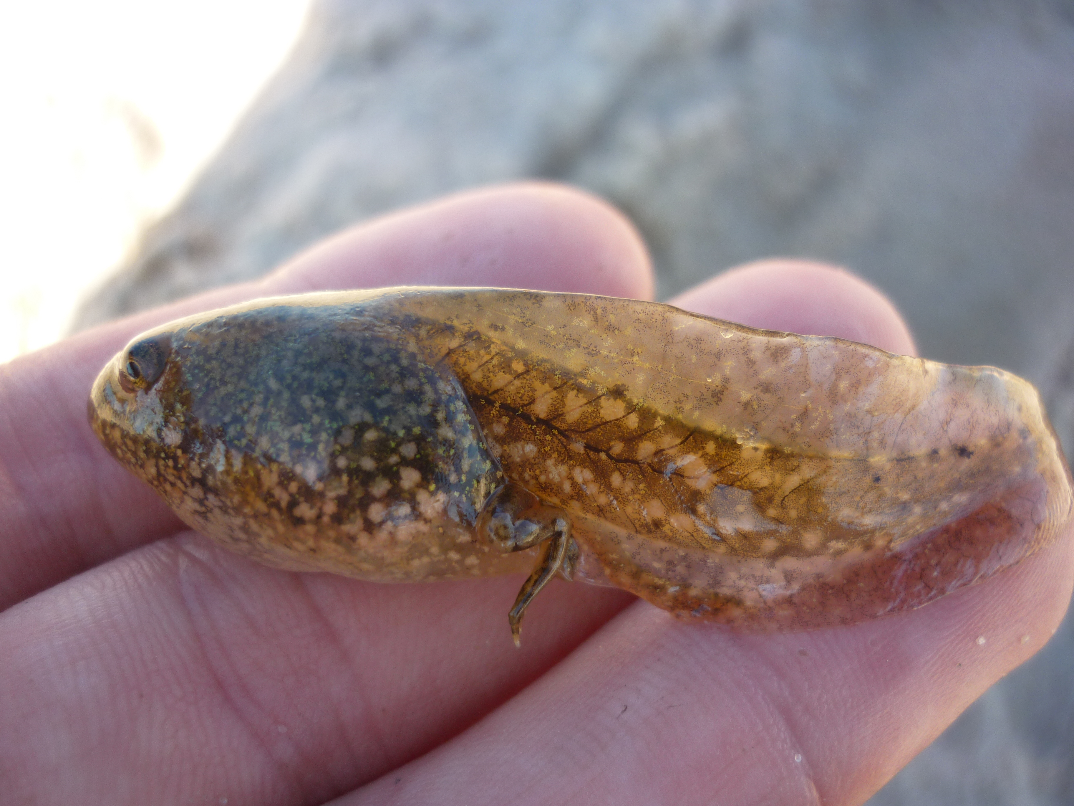 Pelophylax ridibundus